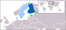 Legend: Dark blue: native language Blue: Official minority language Light blue: official language of European Union Green square: minority